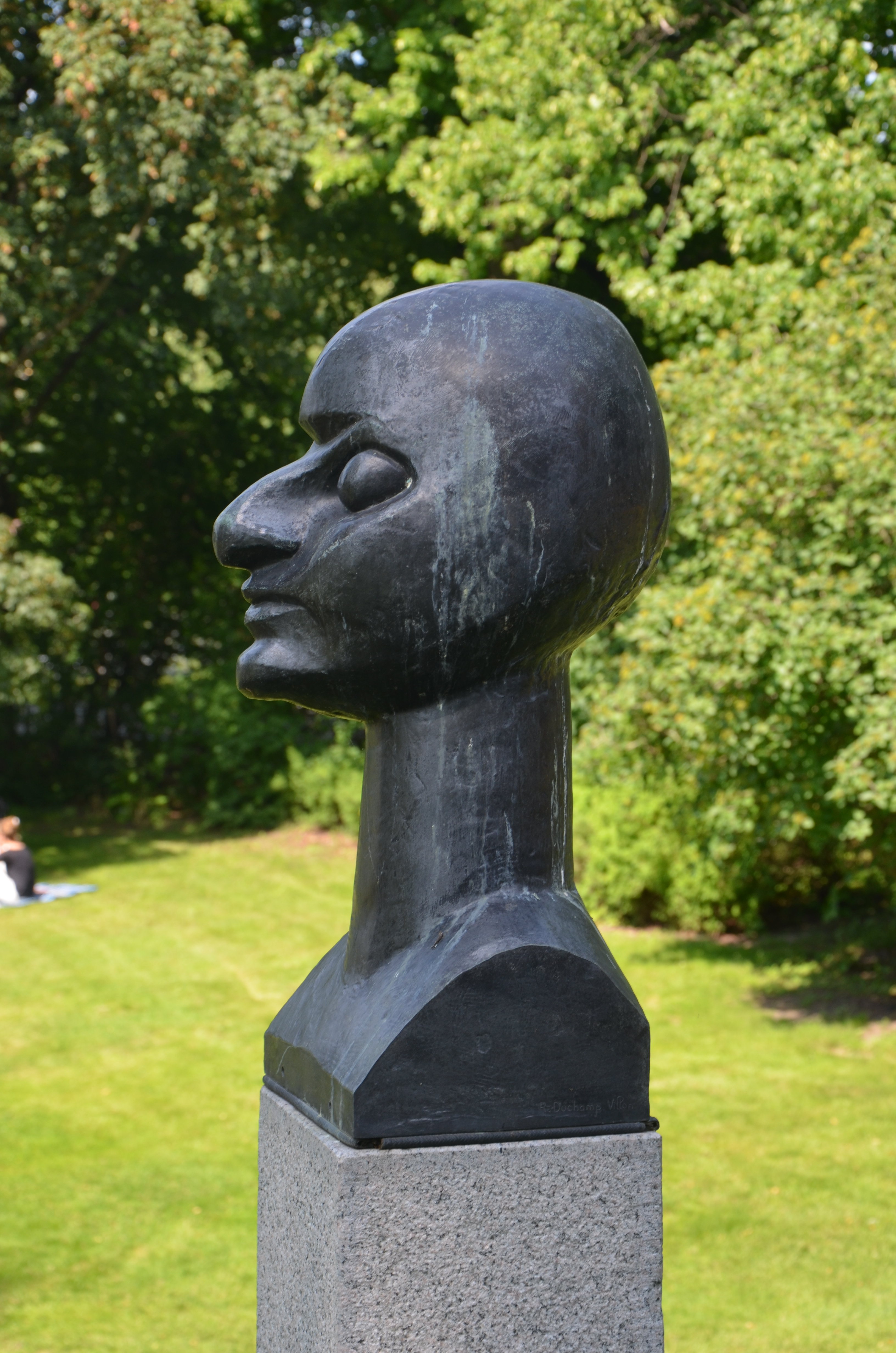 Raymond Duchamp-Villon´s Maggy, Marabouparken, Sundbyberg, Sweden